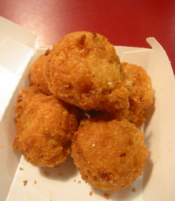 Stack of five hushpuppies